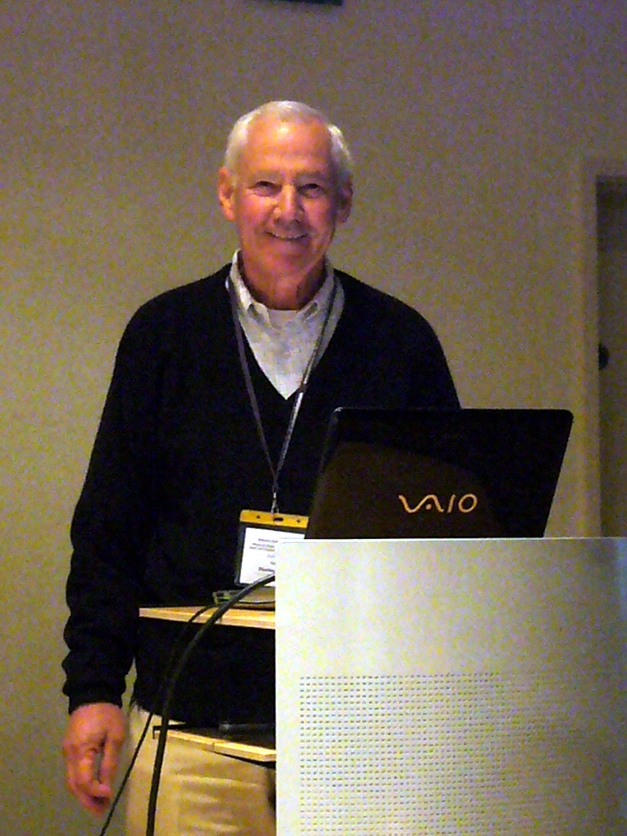 Stanley Falkow, microbiologist, at the Wellcome Trust Sanger Institute, Cambridge